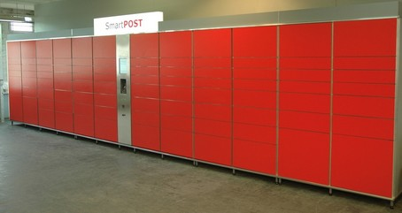 Picture of SmartPOST's Delivery Package Solution system in use.